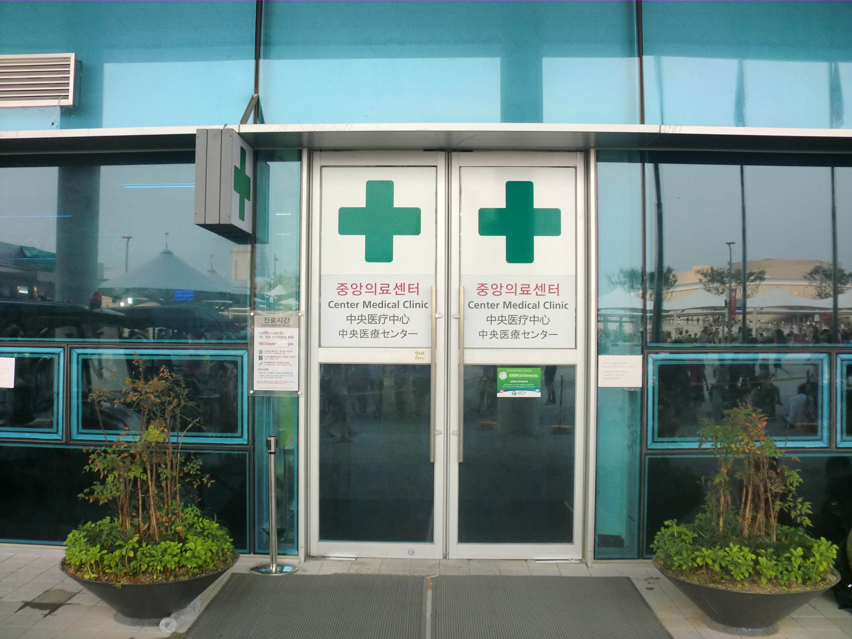 Expo 2012 Medical Clinic Center